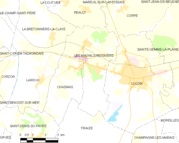 Map of French municipality Les Magnils-Reigniers